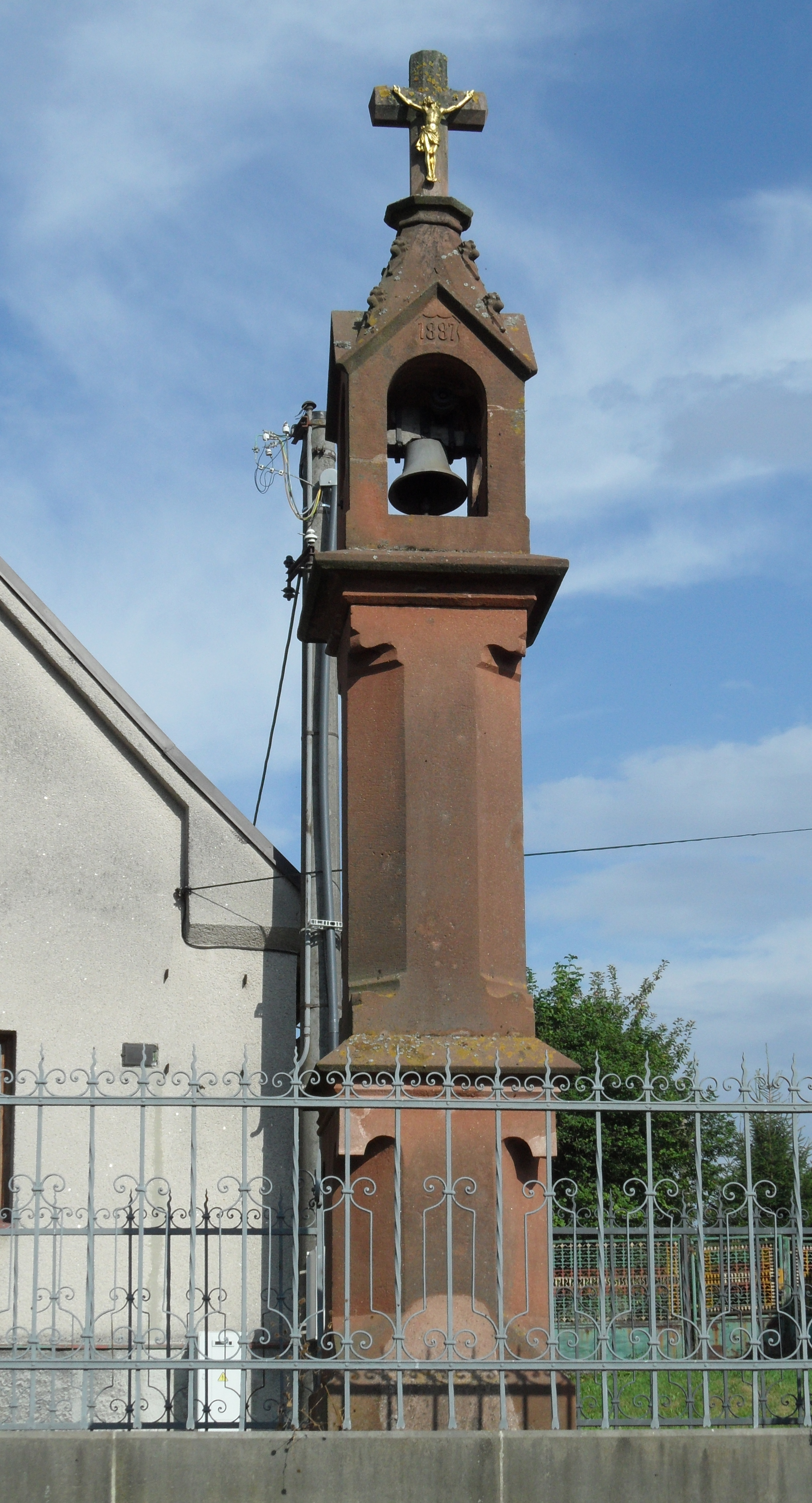 Nepoměřice G. Tower Bell with Crucifix, Kutná Hora District, the Czech Republic.